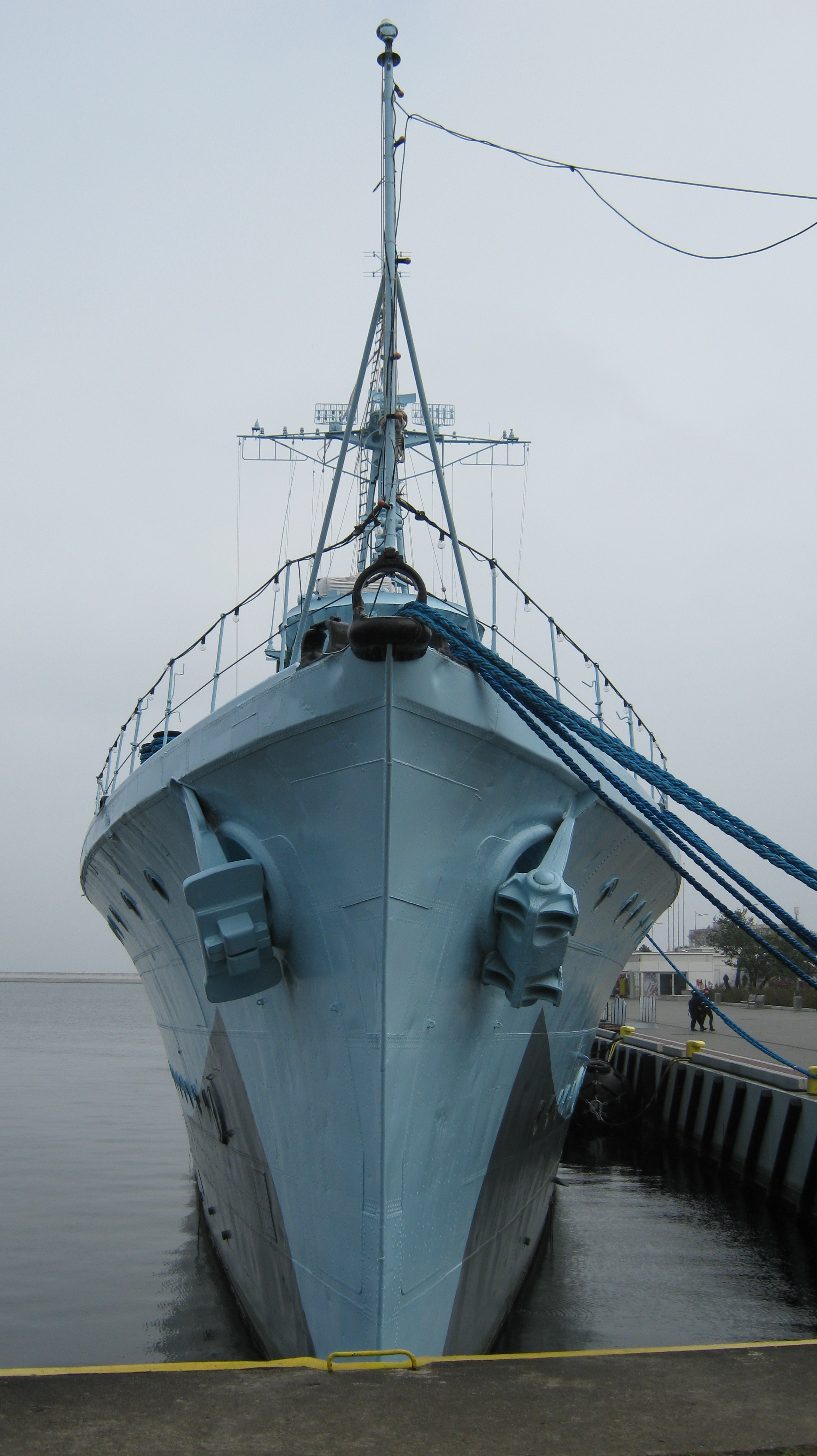 ORP Błyskawica